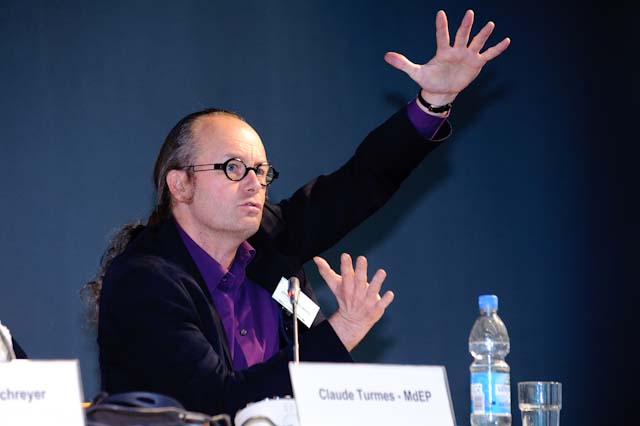 Foto: Stephan Röhl